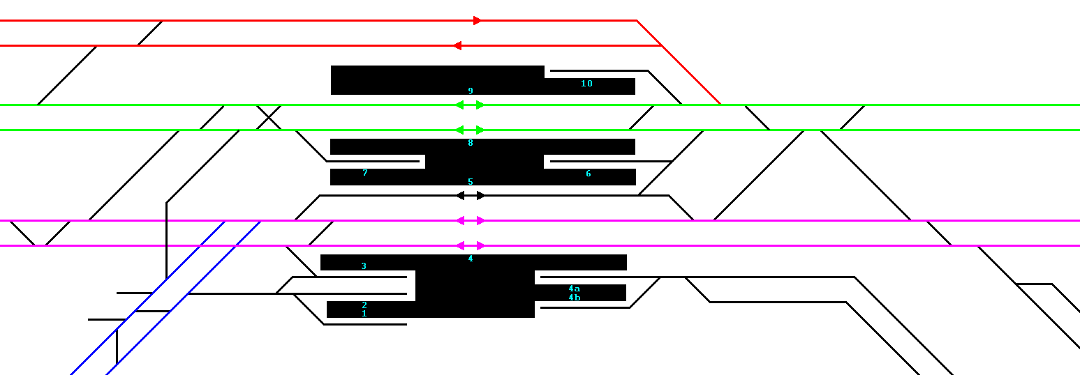 Diagram of current (as of 2007) track layout at Reading railway station. — Main (Bristol-Paddington) lines — Westbury lines — Goods lines — Relief lines — Other lines